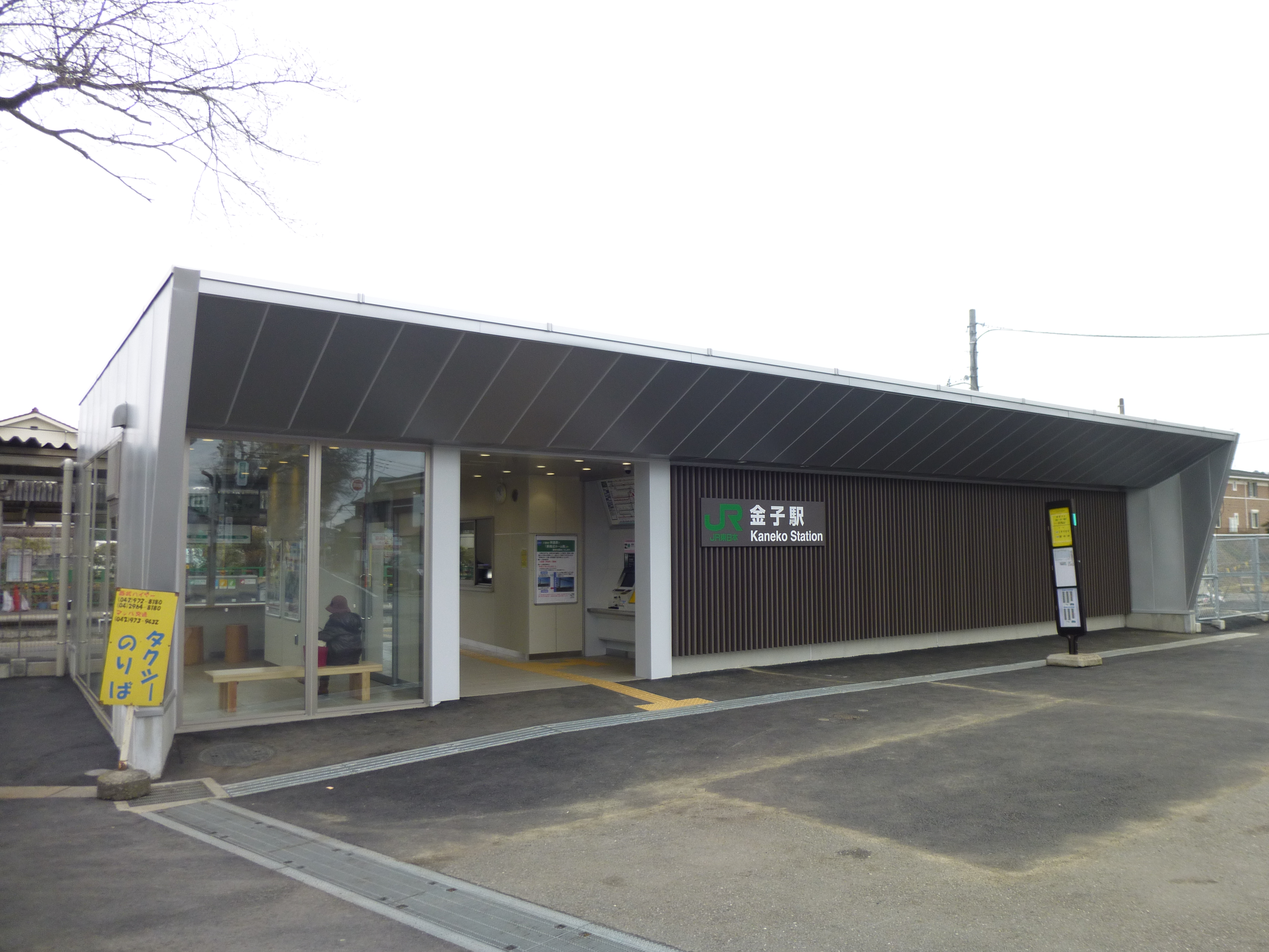 Kaneko Station on the Hachiko Line in Saitama Prefecture, Japan